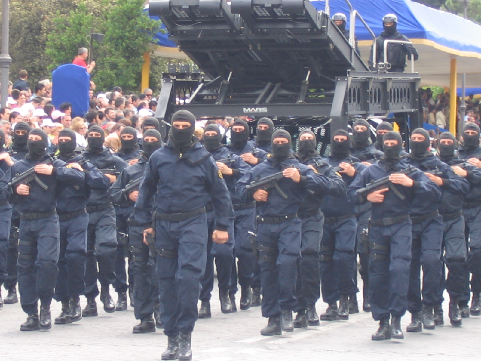 Photo of Army Parade in Rome, 2 june 2006, Festa della Repubblica Italiana. Carabinieri GIS (Special groups) Livorno